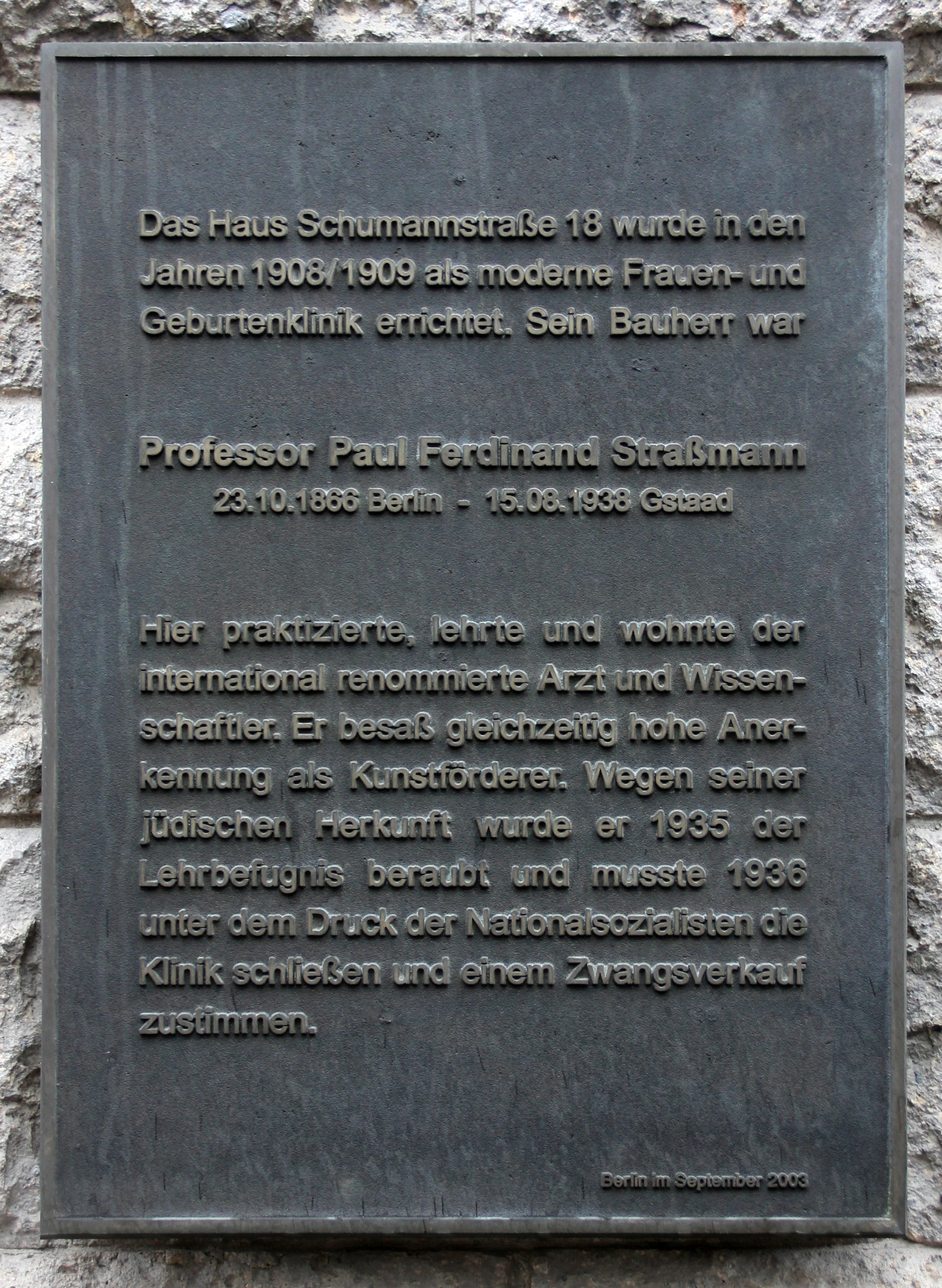 Memorial plaque, Paul Ferdinand Straßmann, Schumannstraße 18, Berlin-Mitte, Germany